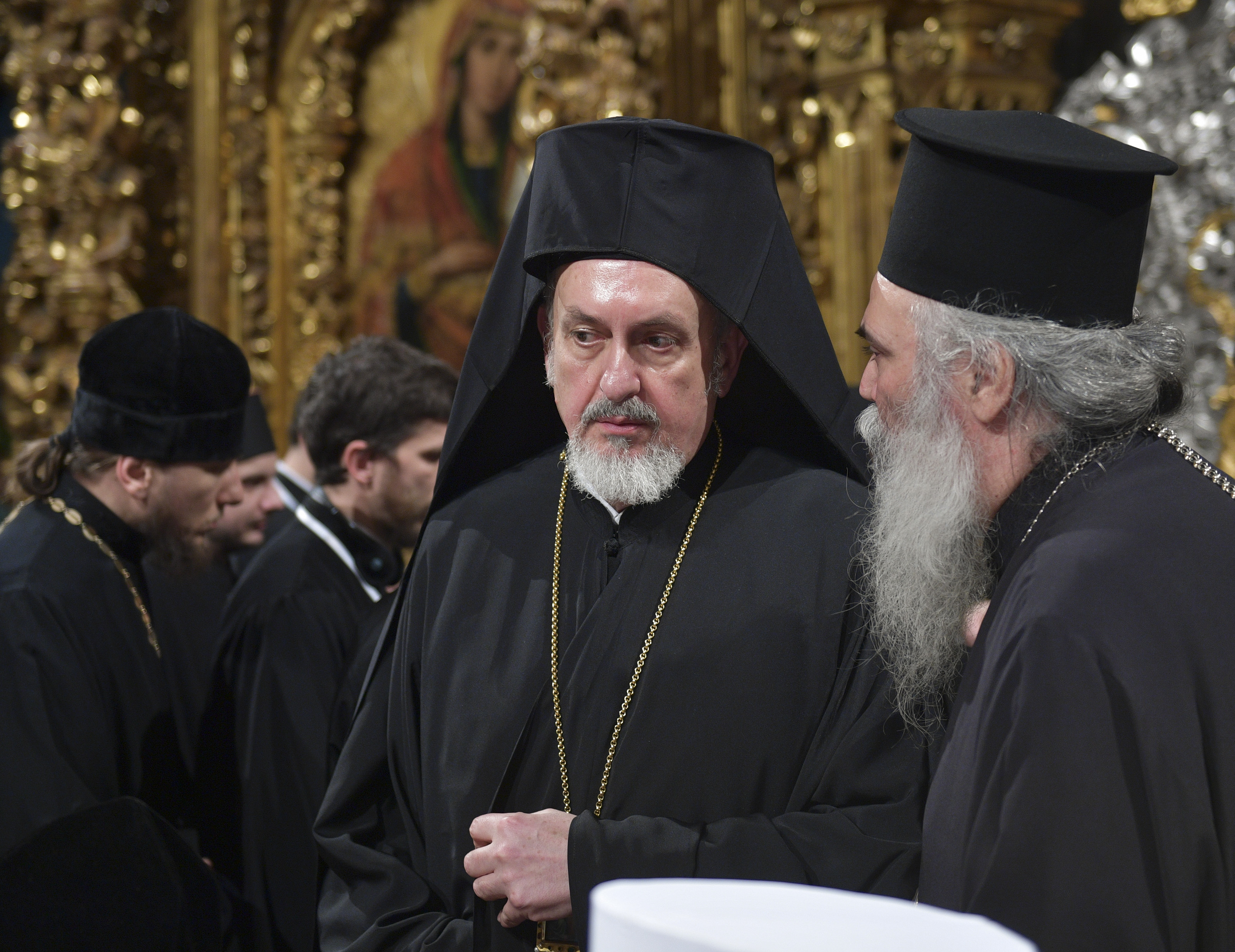 Unification council of Orthodox Church in Ukraine